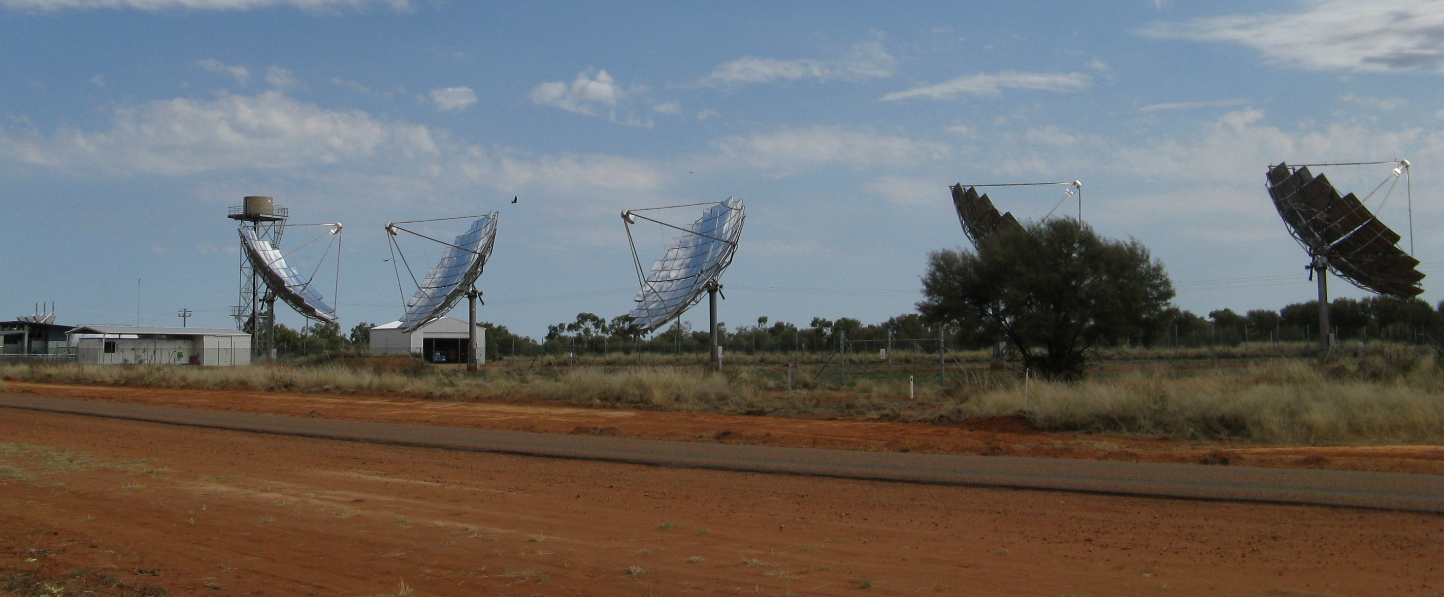 Five reflective dishes of the Windorah Solar Farm, Windorah, Queensland, Australia